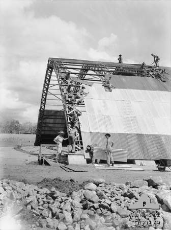 Vivigani, Goodenough Island, Papua New Guinea. Work in progress on the roof during the construction of an "igloo" hangar by members of No. 7 Mobile Works Squadron RAAF.